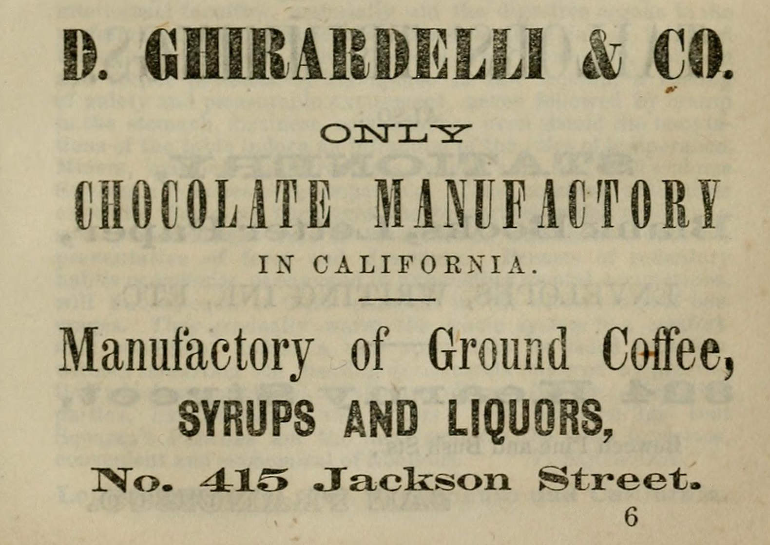 1864 advertisement for Ghirardelli Chocolate, "only chocolate maker in California" (at the time), and still inb existence today.(Cropped)